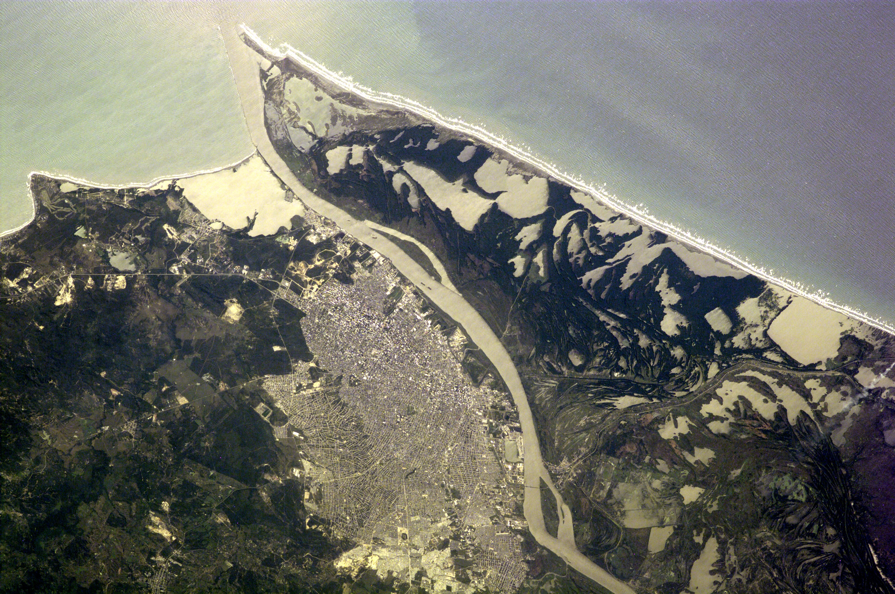 View of Barranquilla from space posted by NASA.